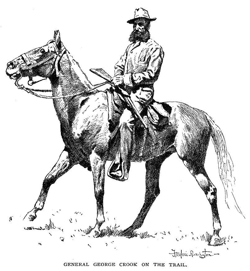 Engraving of General George Crook on horse patrol in Indian country circa 1867; published in The Century Magazine in March 1891